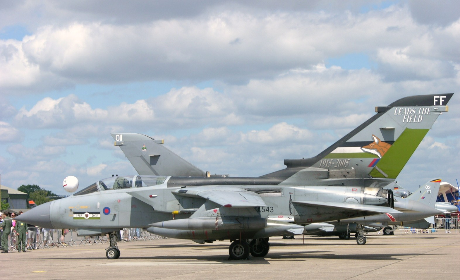 Special marks for the squadron's 90th anniversary in 2005; fortunately it hasn't had a repaint yet.